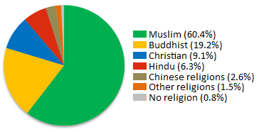 Pie chart of the religious groups of Malaysia, according to the 2000 census